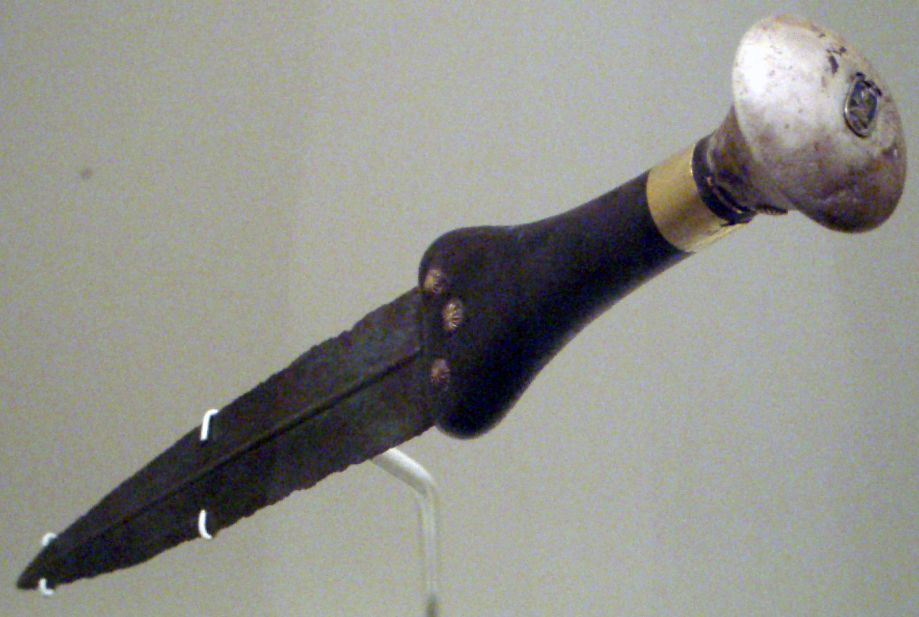 A bronze dagger bearing the name of king Ahmose I in gold on its alabaster handle. Found in Abydos. Early 18th dynasty, circa 1560 BC. Exhibited at the Royal Ontario Museum, Toronto, Canada.